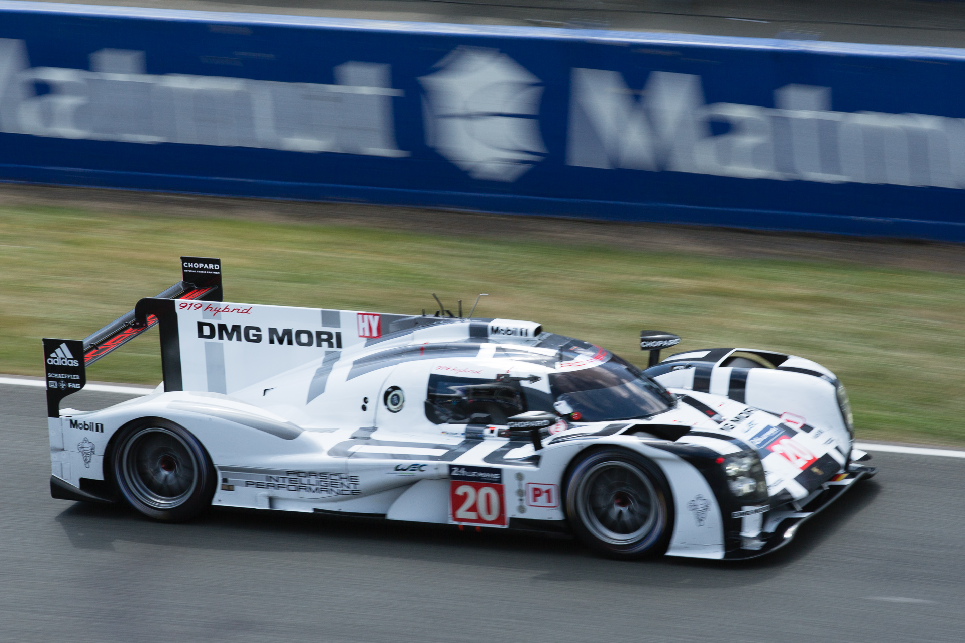 The No. 20 Porsche 919 Hybrid at the 2014 24 Hours of Le Mans